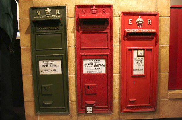 Late Victorian Postboxes, Bath Postal Museum